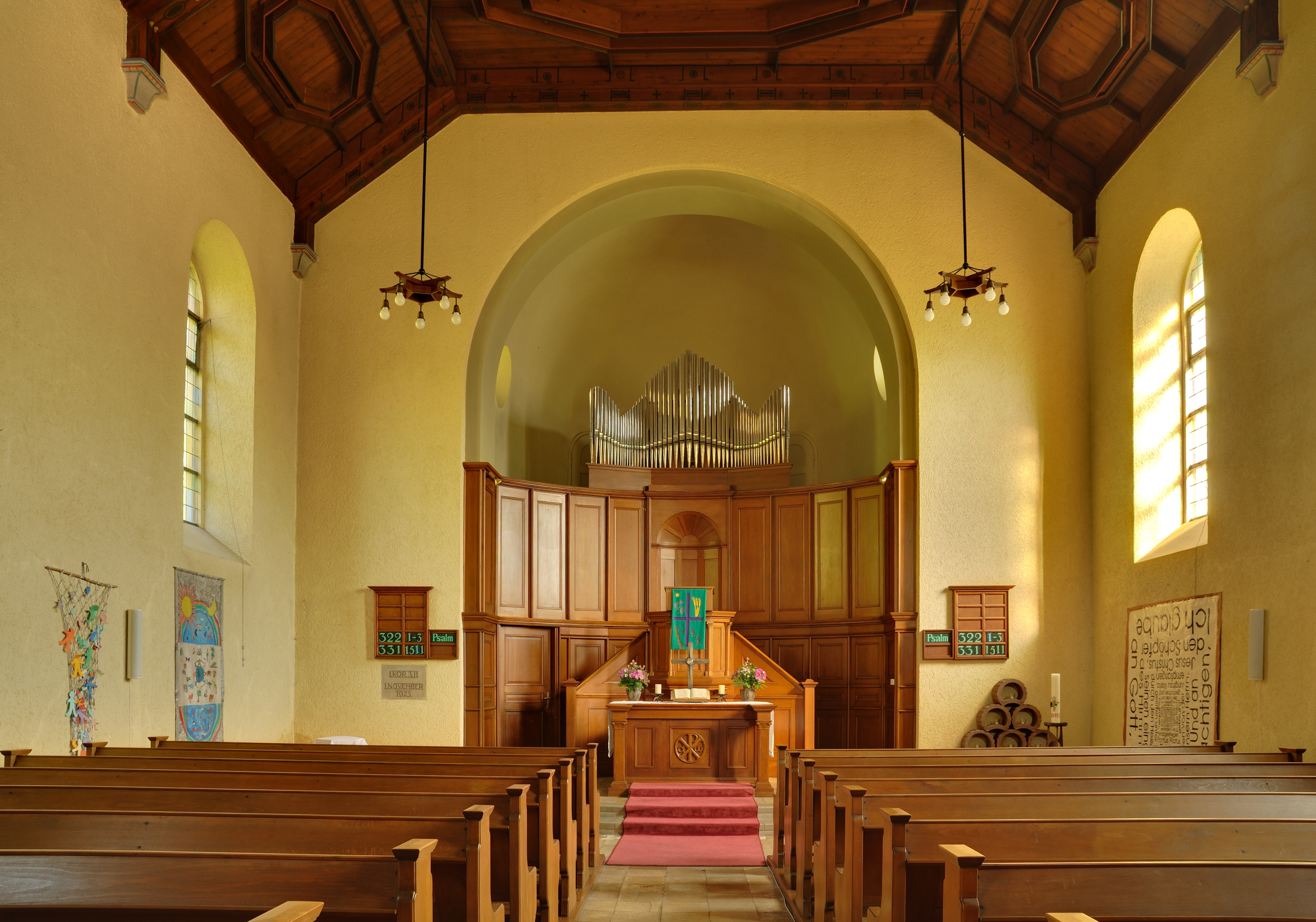 Schönau: Mountain Church (Protestant Church)